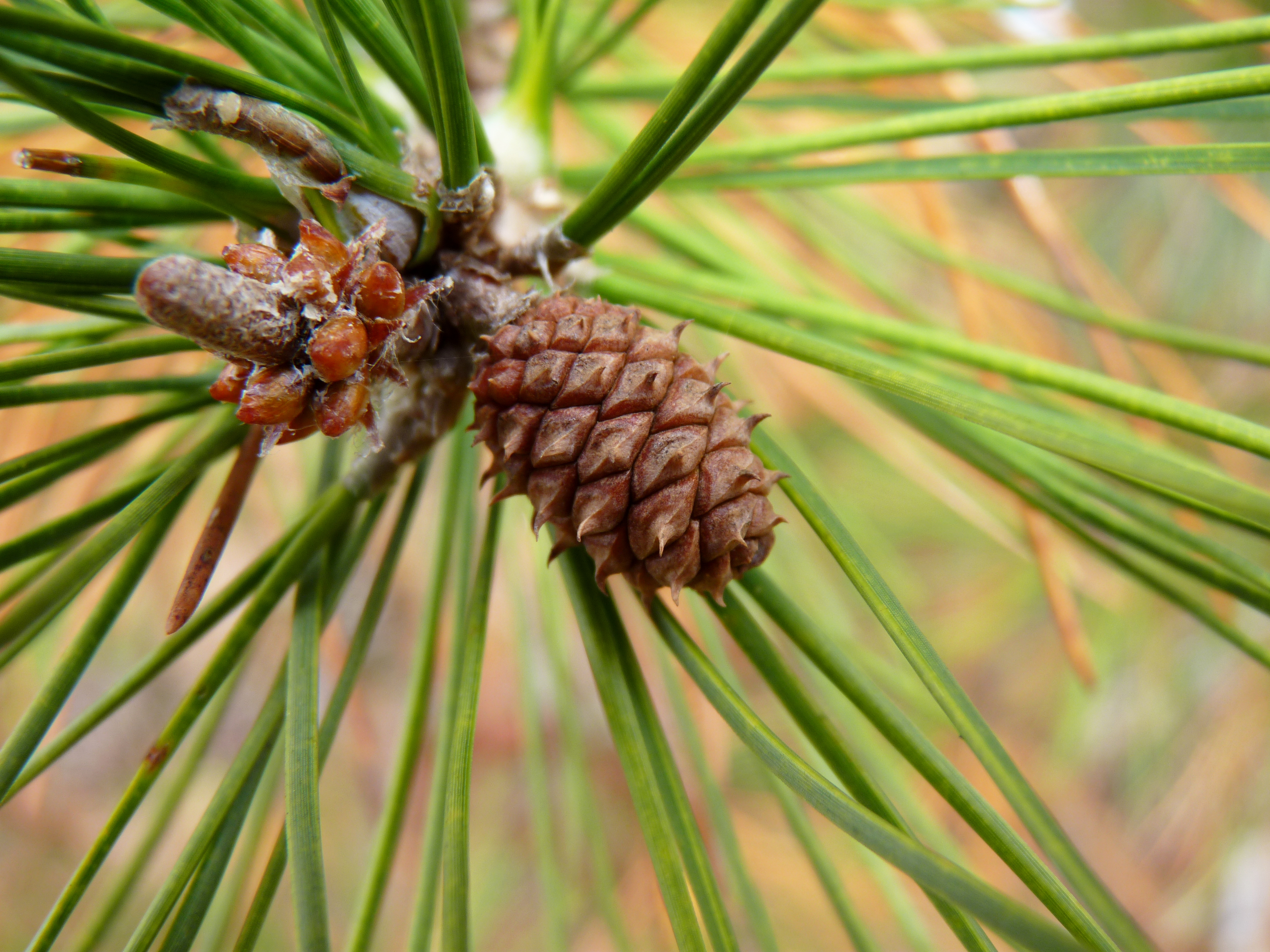 Shortleaf Pine Pinus echinata 6-month old immature conelet and leaves, Chatsworth, New Jersey.